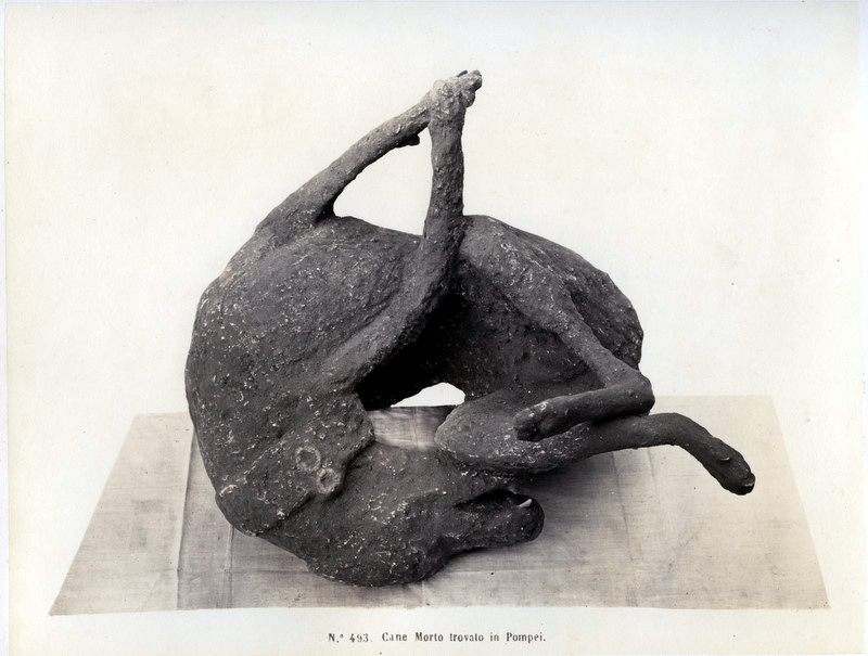 Roberto Rive (18?-1889), "# 493. A dead dog found in Pompeii".